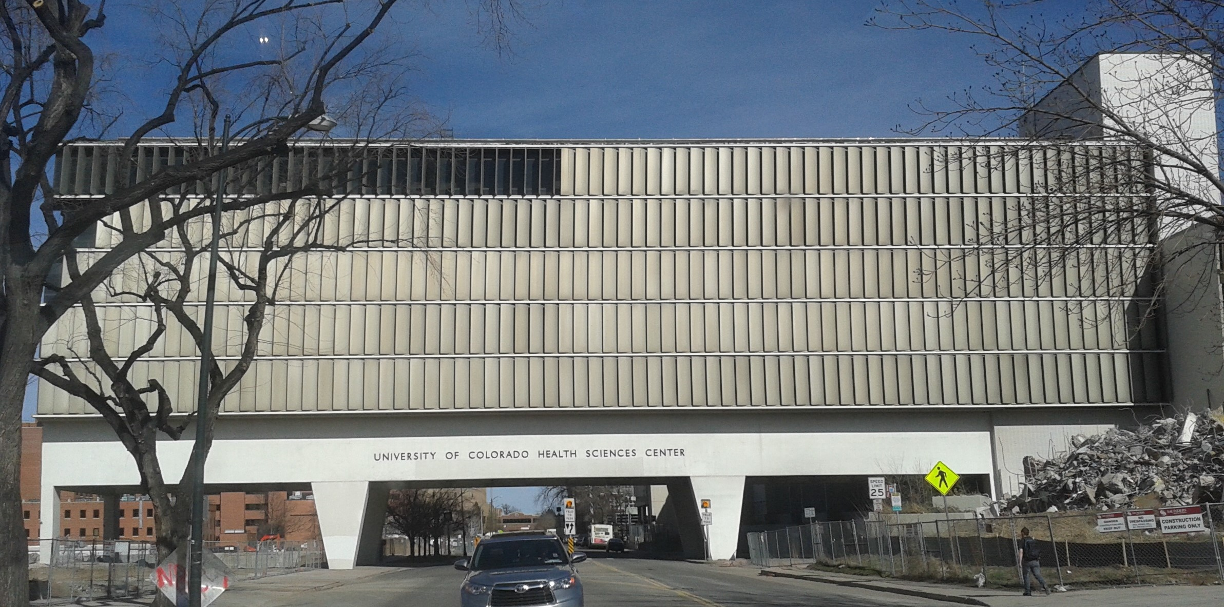 The former University of Colorado Health Sciences Center, now under demolition after moving its campus.